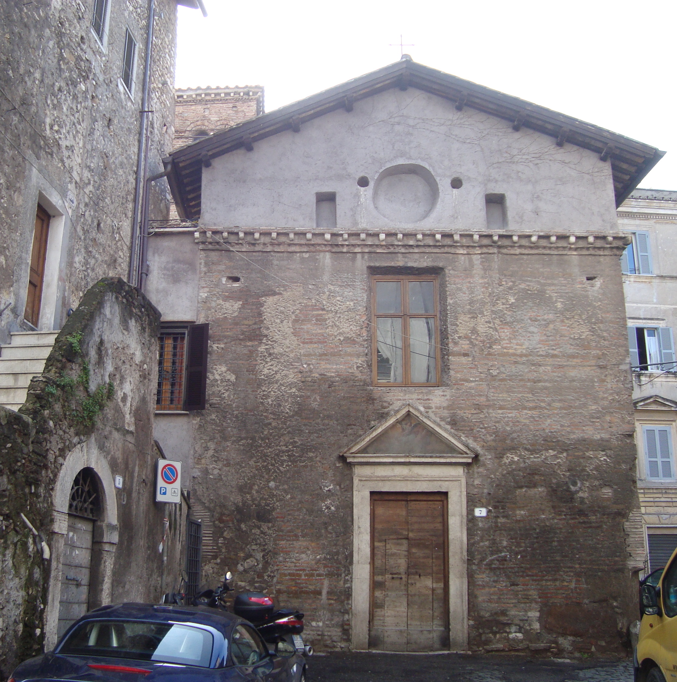 The Church San Michele Arcangelo in Tivoli